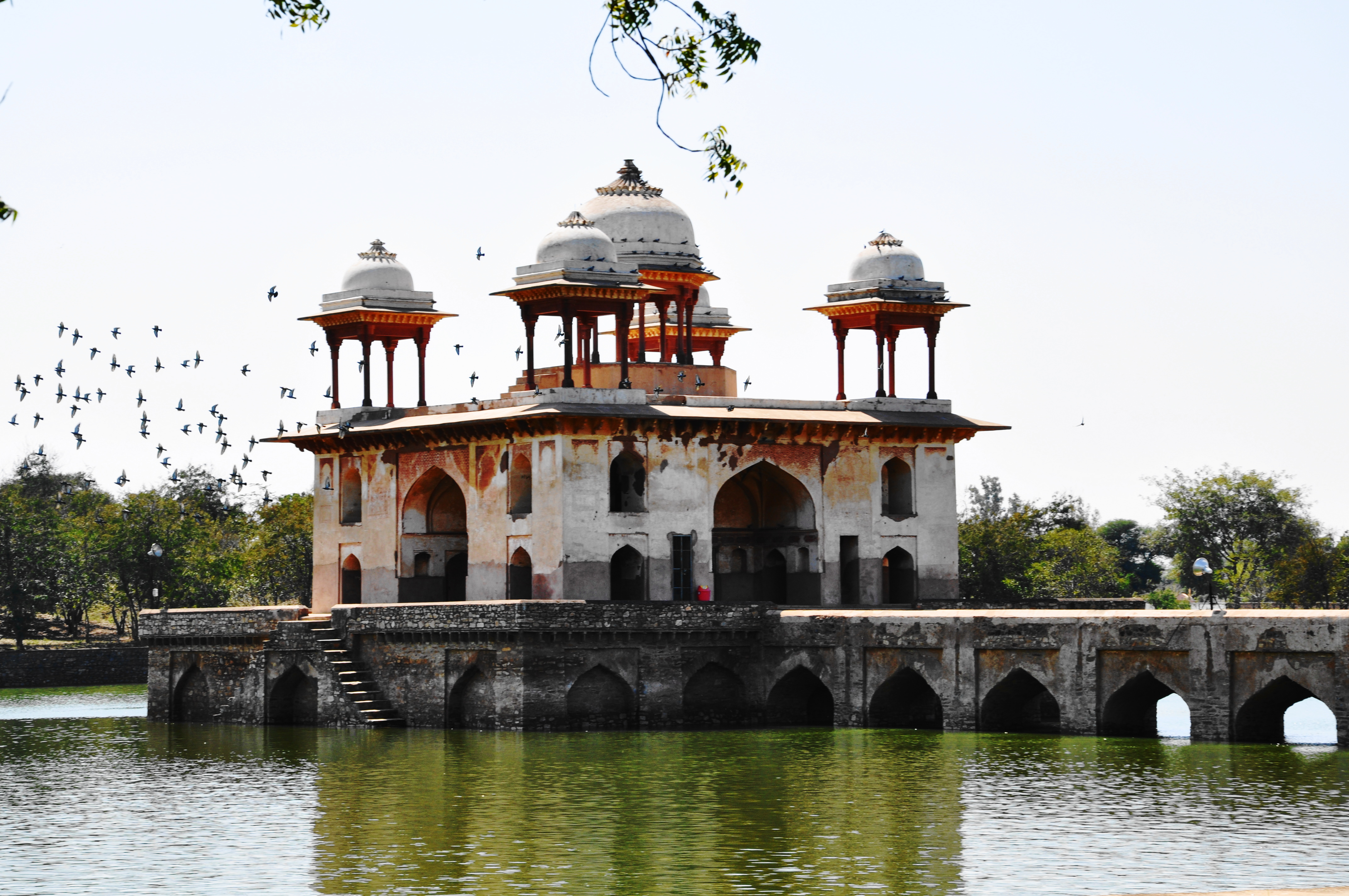 Jal Mahal Built by Shah Quli Khan, An officer of Akbar and the Ruler of Narnaul. It was a Pleasure Palace Surrounded on all Sides by Water.